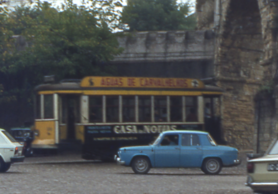 Tram in Coimbra under the ancient aqueduct "os Acros"